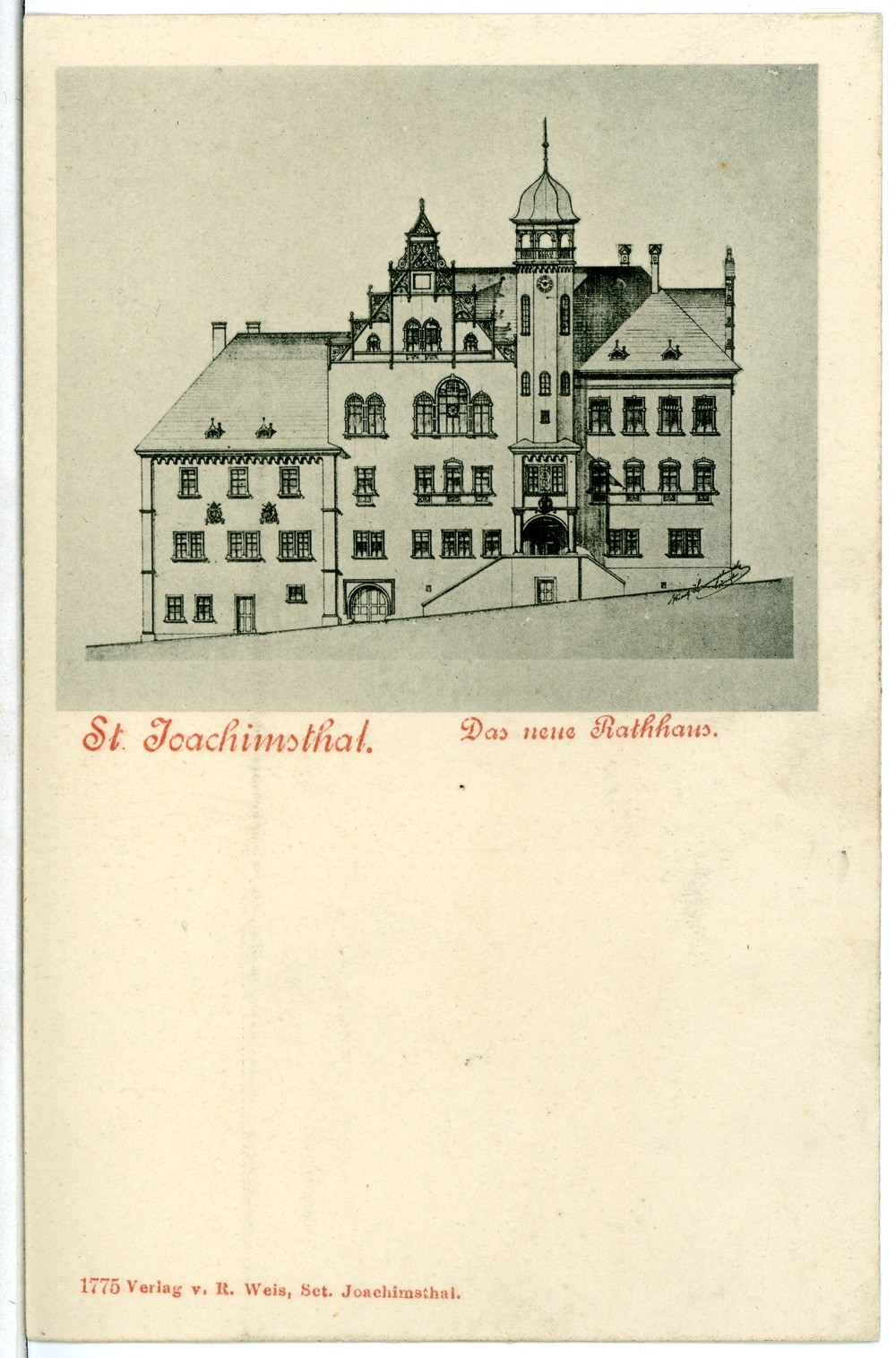 This postcard is from publisher Brück & Sohn in Meißen ( This postcard has a unique number 01775 and is available in a higher resolution at the publisher. This images was uploaded in a cooperation project between Wikipedians and the publisher.